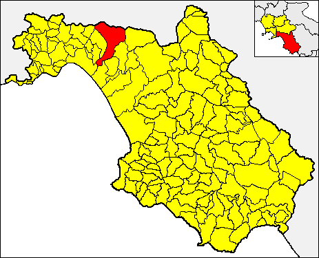 Locator map of the municipality of Giffoni Valle Piana (red) within the Province of Salerno